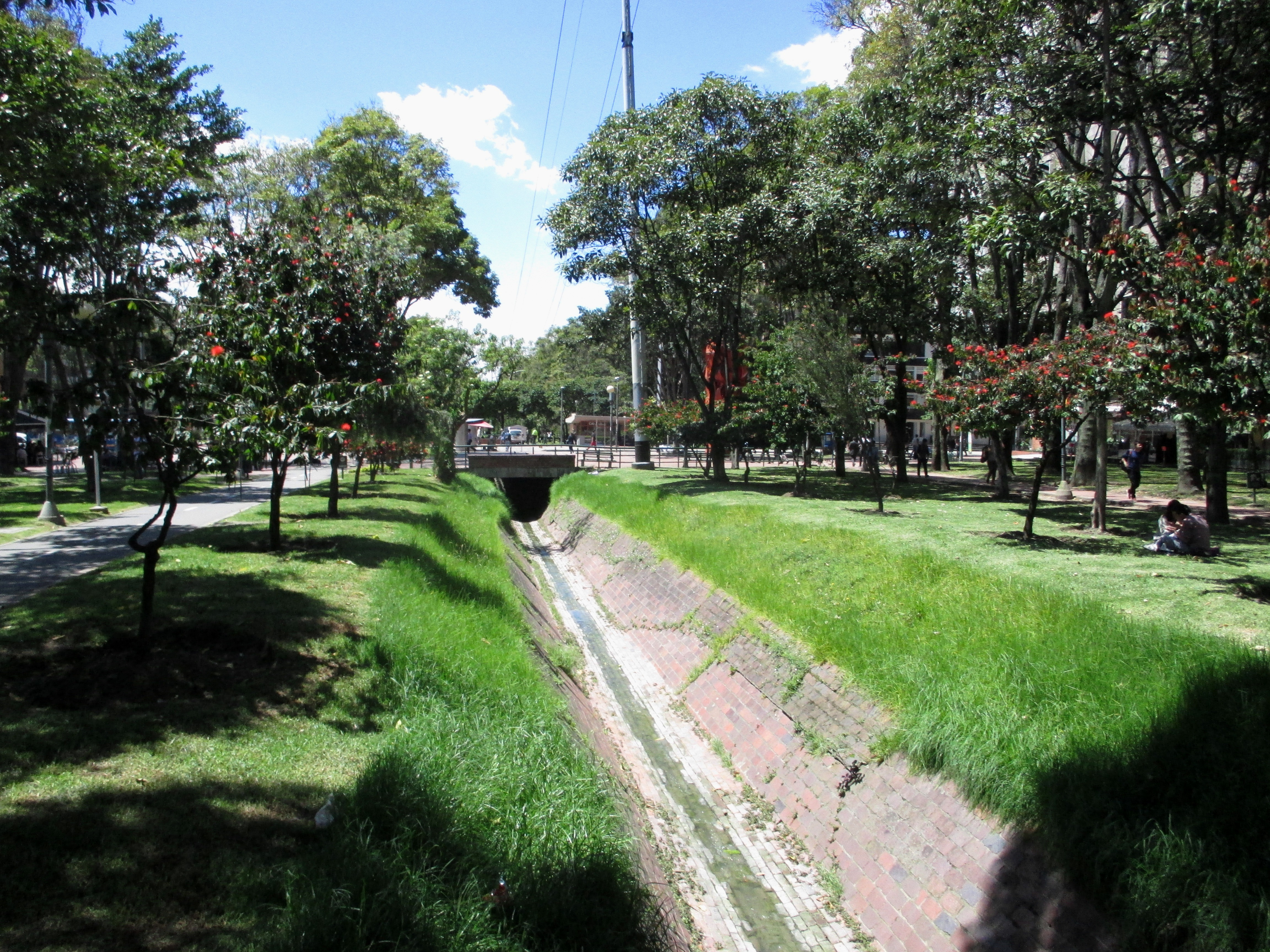 Bogotá